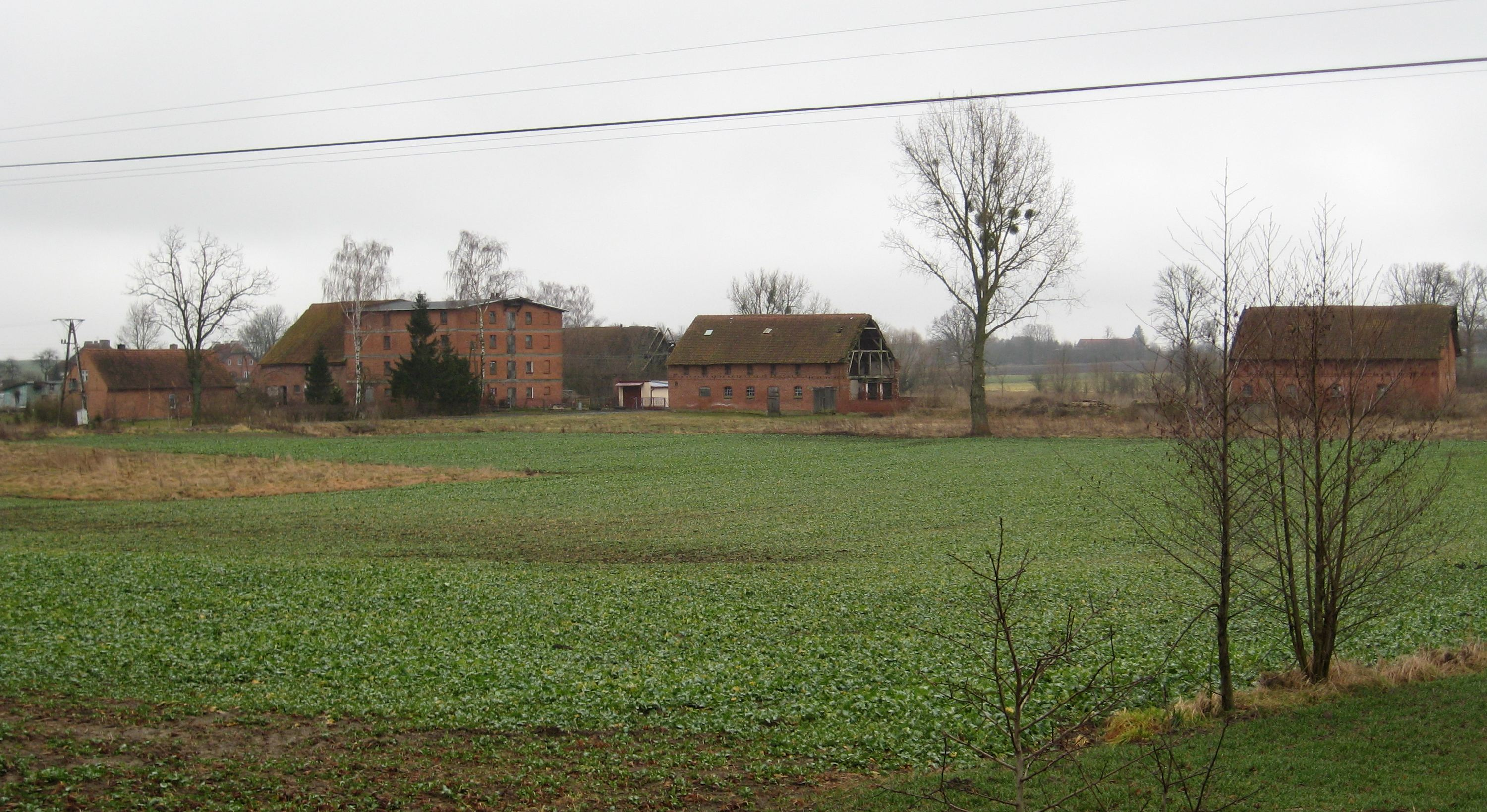 The village Wilkowo Małe in Poland - OpenStreetMap (Info)